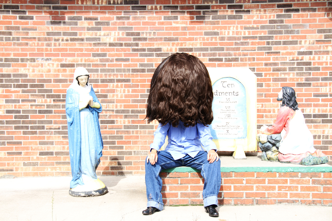 TearHead by Nina Staehli